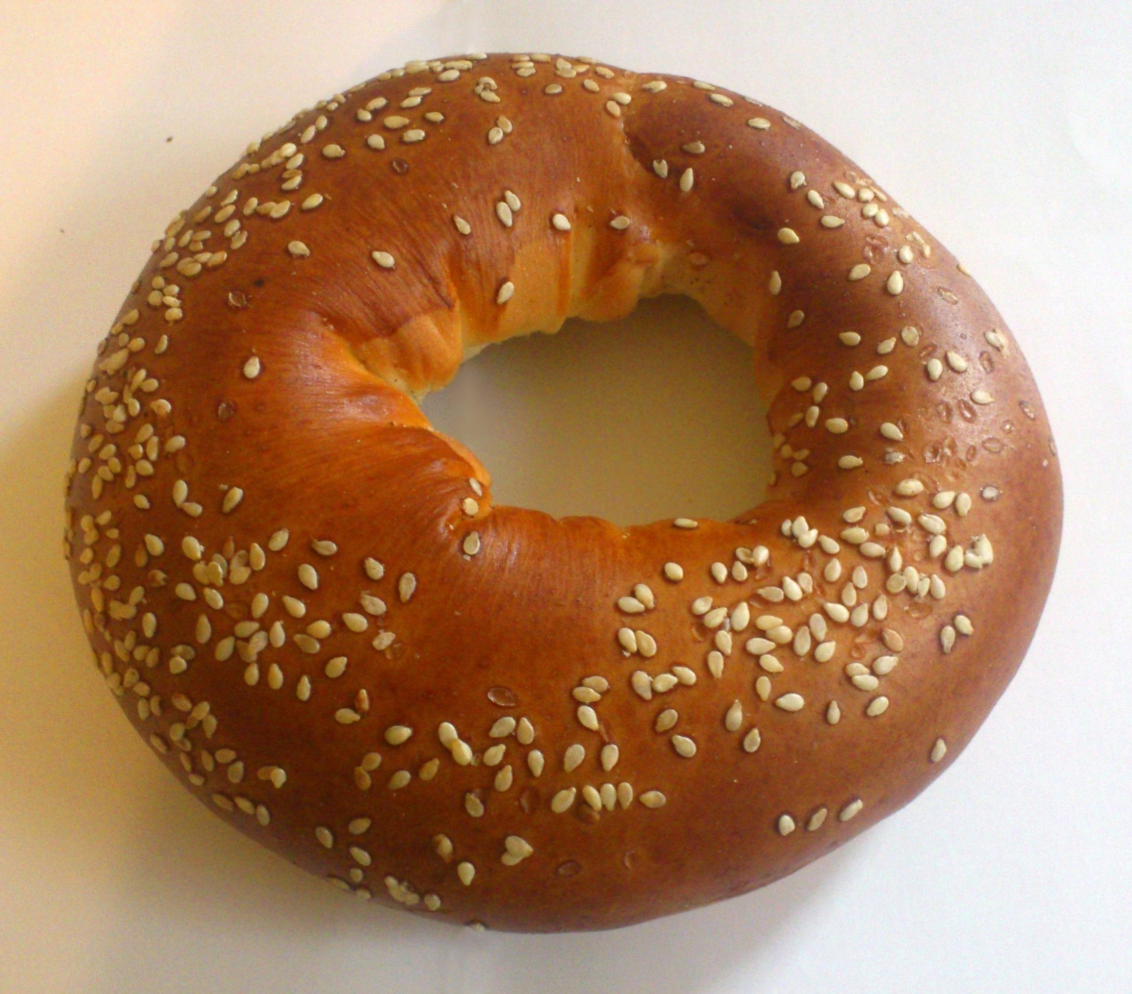 Typical Bublik topped with sesame seeds, purchased in Kiev, Ukraine